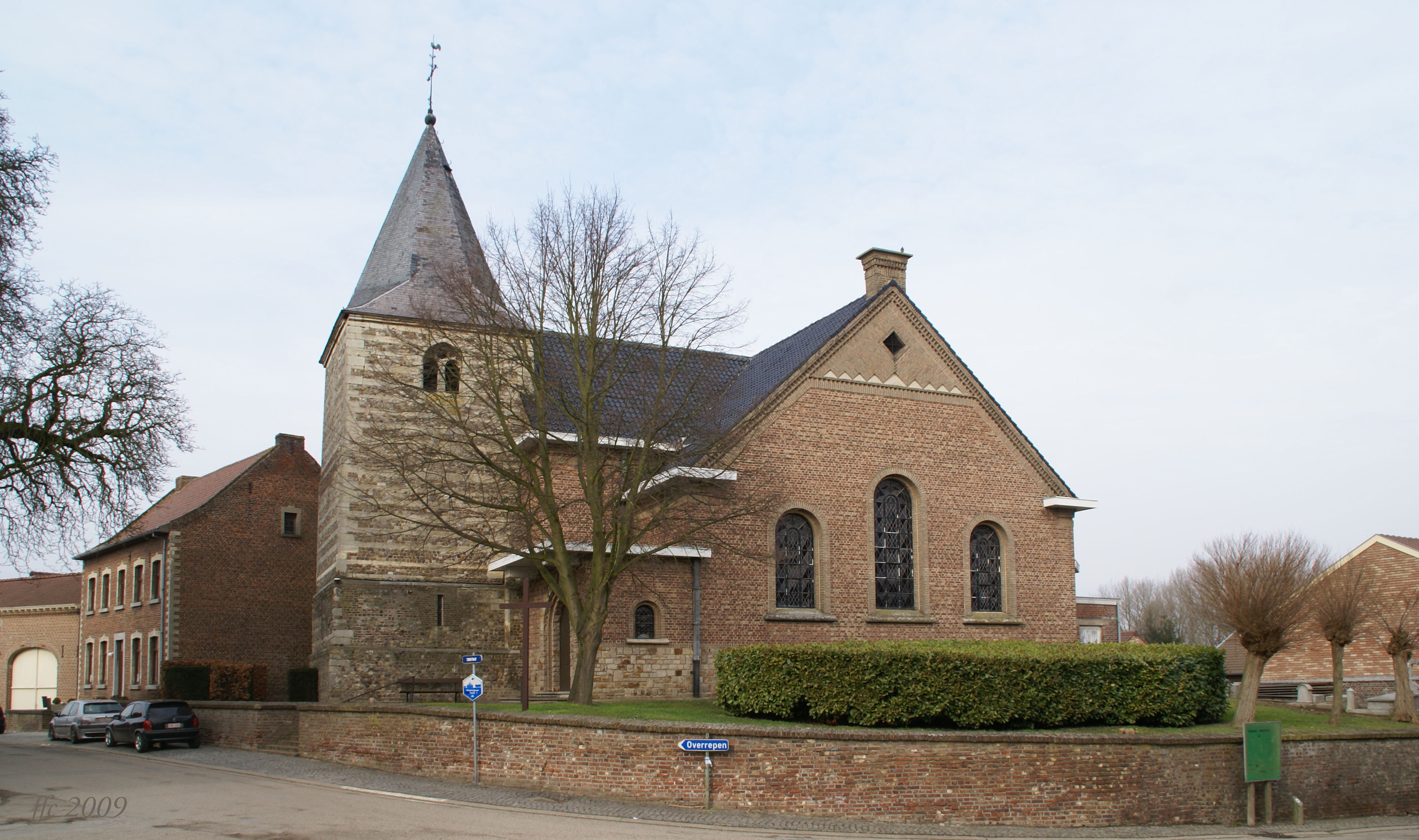 Piringen (Belgium): Farm and church in the Tomstraat